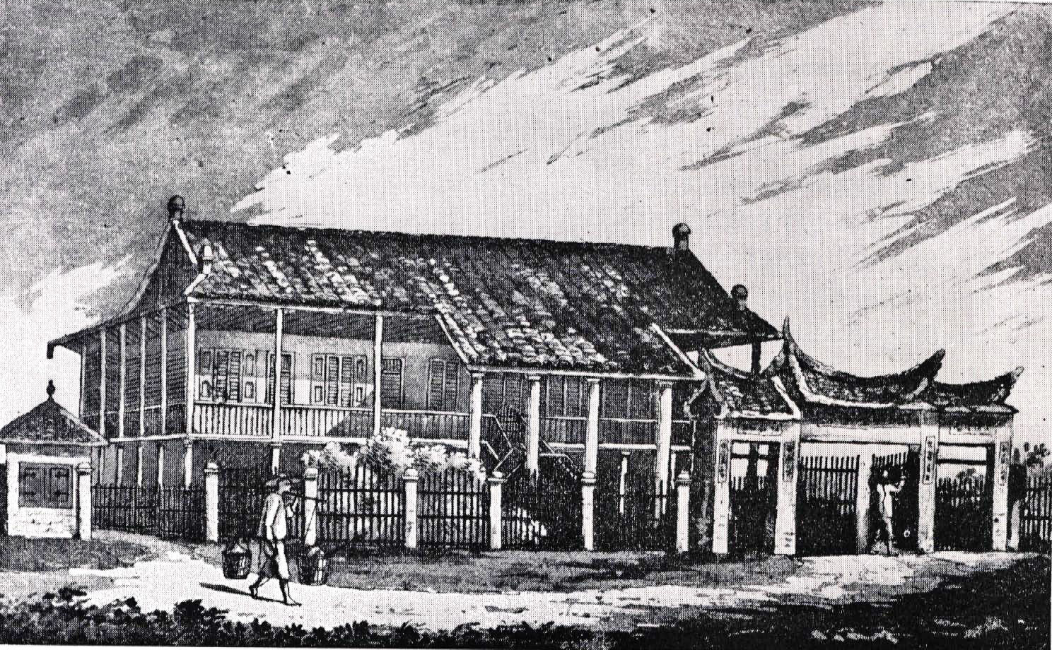 from Begbie, P.J.; The Malayan Peninsula; Madras, 1834